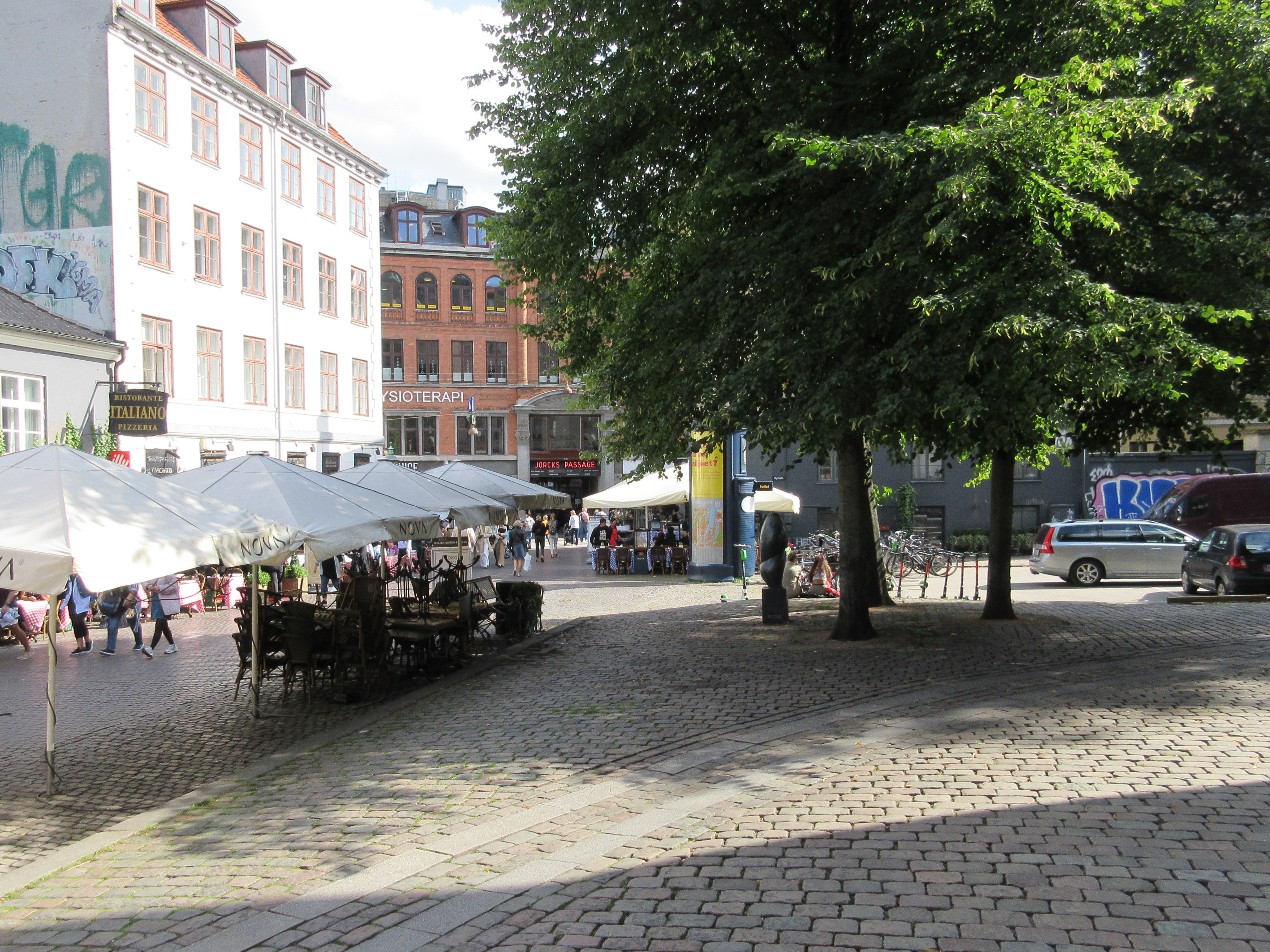 Fiolstræde in Copenhagen, Denmark